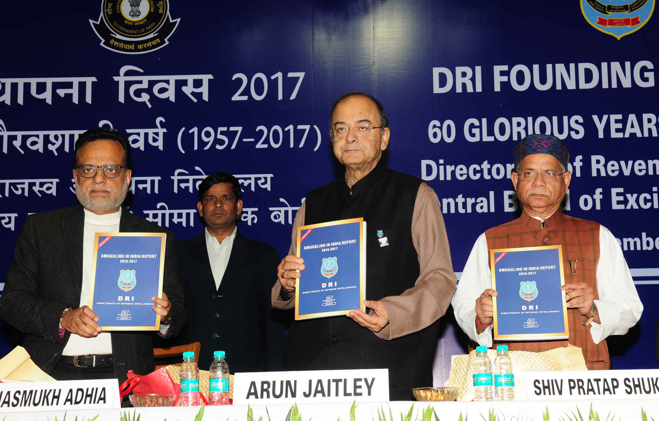 The Union Minister for Finance and Corporate Affairs, Shri Arun Jaitley releasing the publication, at the Diamond Jubilee Celebrations of the Foundation Day of Directorate of Revenue Intelligence (DRI), in New Delhi on December 04, 2017.The Minister of State for Finance, Shri Shiv Pratap Shukla and the Finance Secretary, Dr. Hasmukh Adhia are also seen.